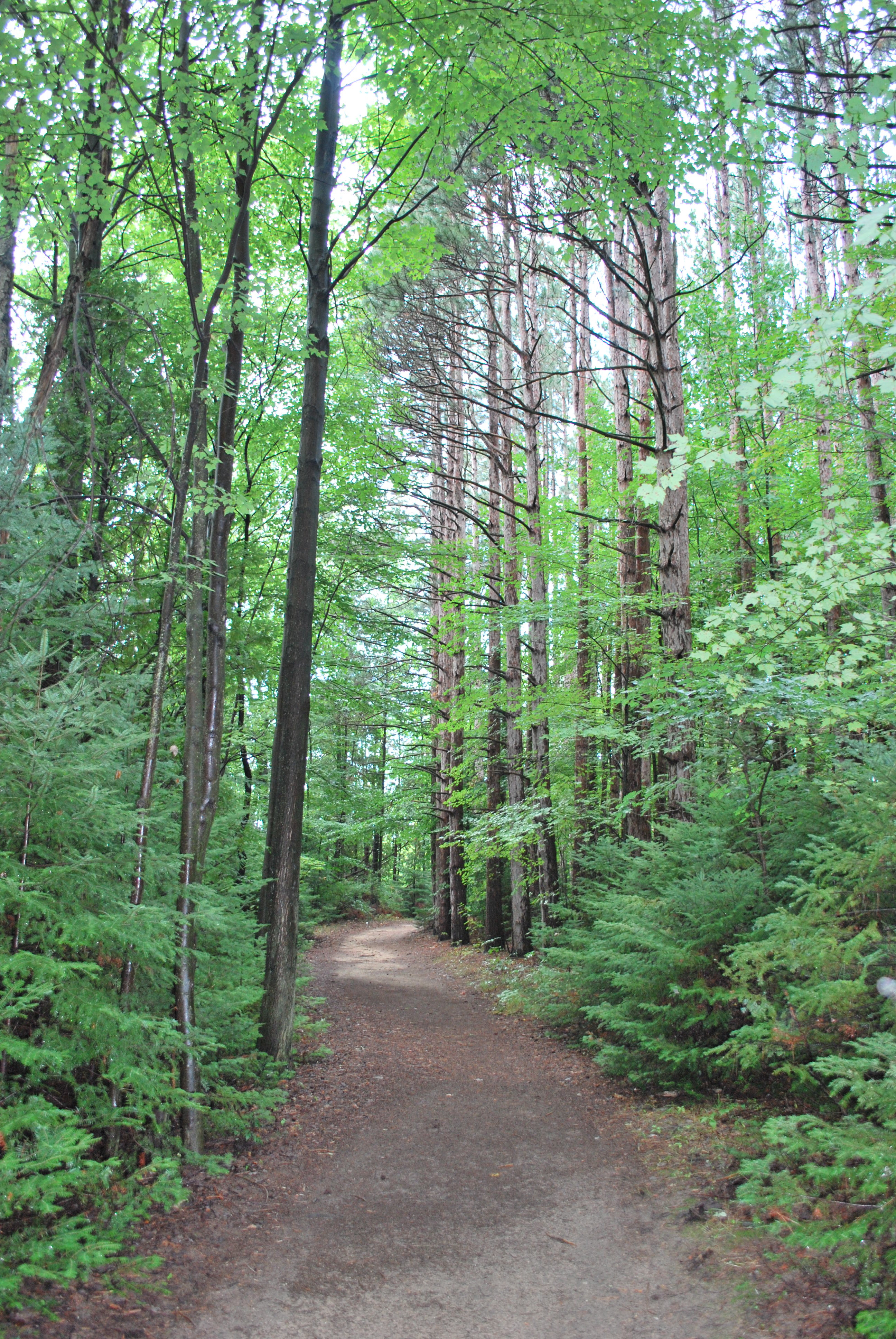 Forest trail at Proud Lake Recreation Area - near Commerce Township, Oakland County, Michigan.